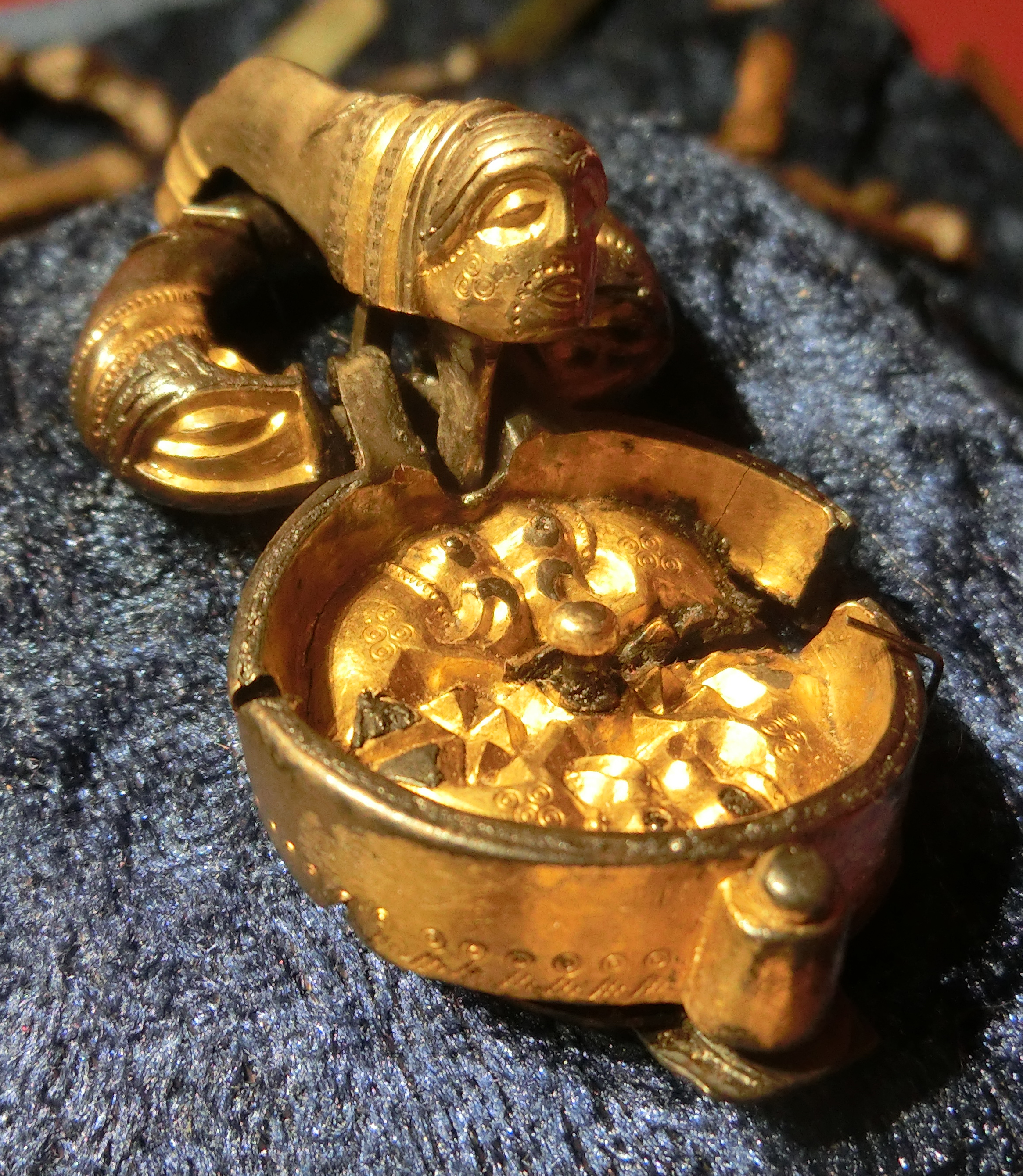 A Migration period fibula, depicting the Norse god Odin and his two ravens Huginn and Muninn, found in the Finnestorp sacrificial bog during the archaeological excavations in 2002. The bog is situated at the border between the parishes Larv and Trävattna, the hundreds Laske and Vilske, and the municipalities Vara and Falköping in Västergötland, Västra Götaland County, Sweden.